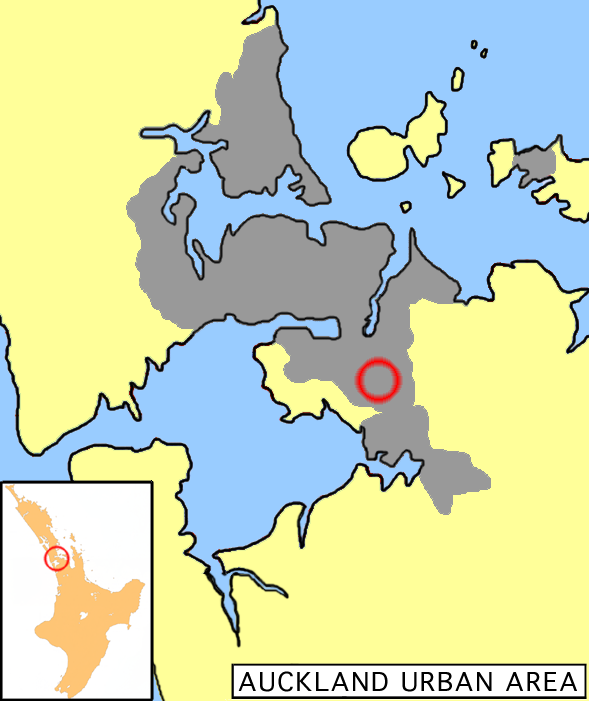 Location map of Papatoetoe, New Zealand